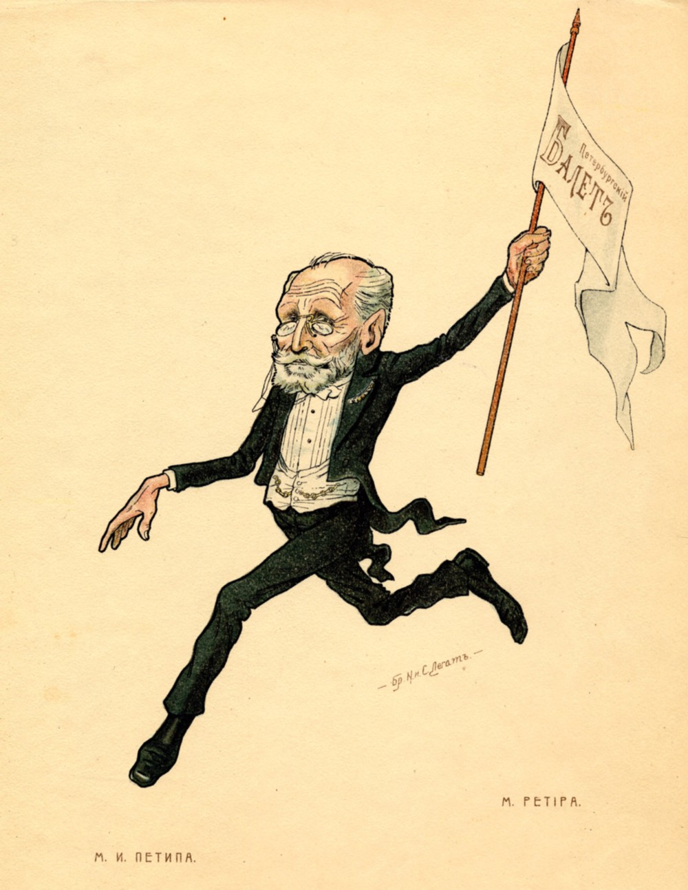 Caricature of Marius Petipa (1818-1910). Premier Maître de Ballet of the St. Petersburg Imperial Theatres (1871-1903).